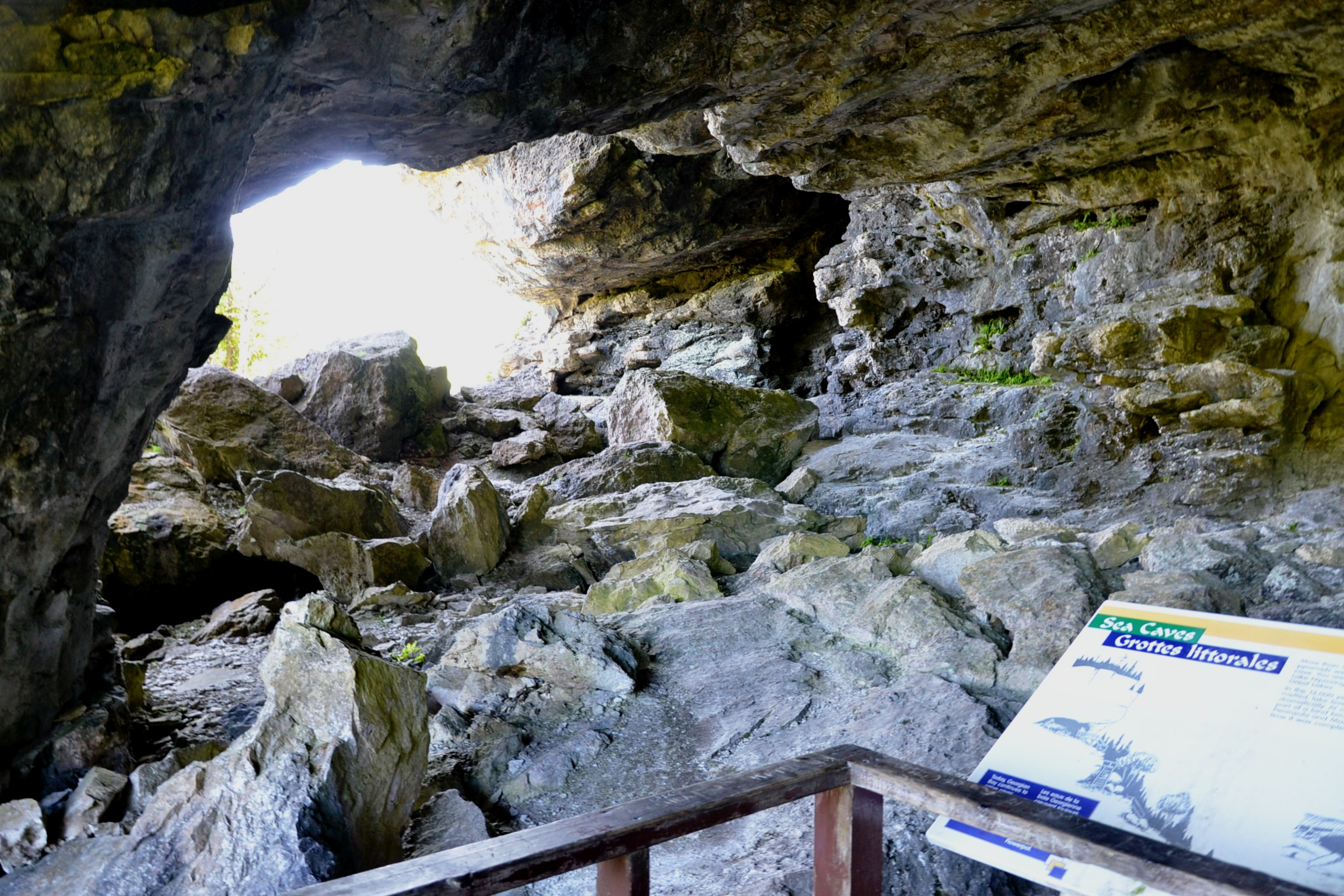 Sea caves in Flowerpot Island